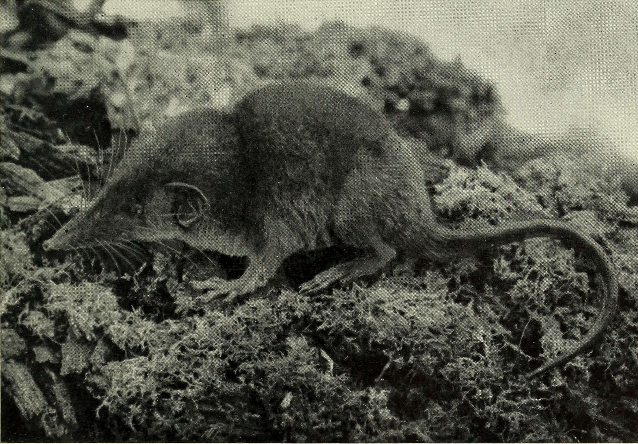 Sylvisorex oriundus Hollister, female adult. Title: The Congo Expedition of the American Museum of Natural History Year: 1919 (1910s) Authors: Osborn, Henry Fairfield, 1857-1935; American Museum of Natural History Subjects: Natural history; Mammals Publisher: New York : American Museum of Natural History